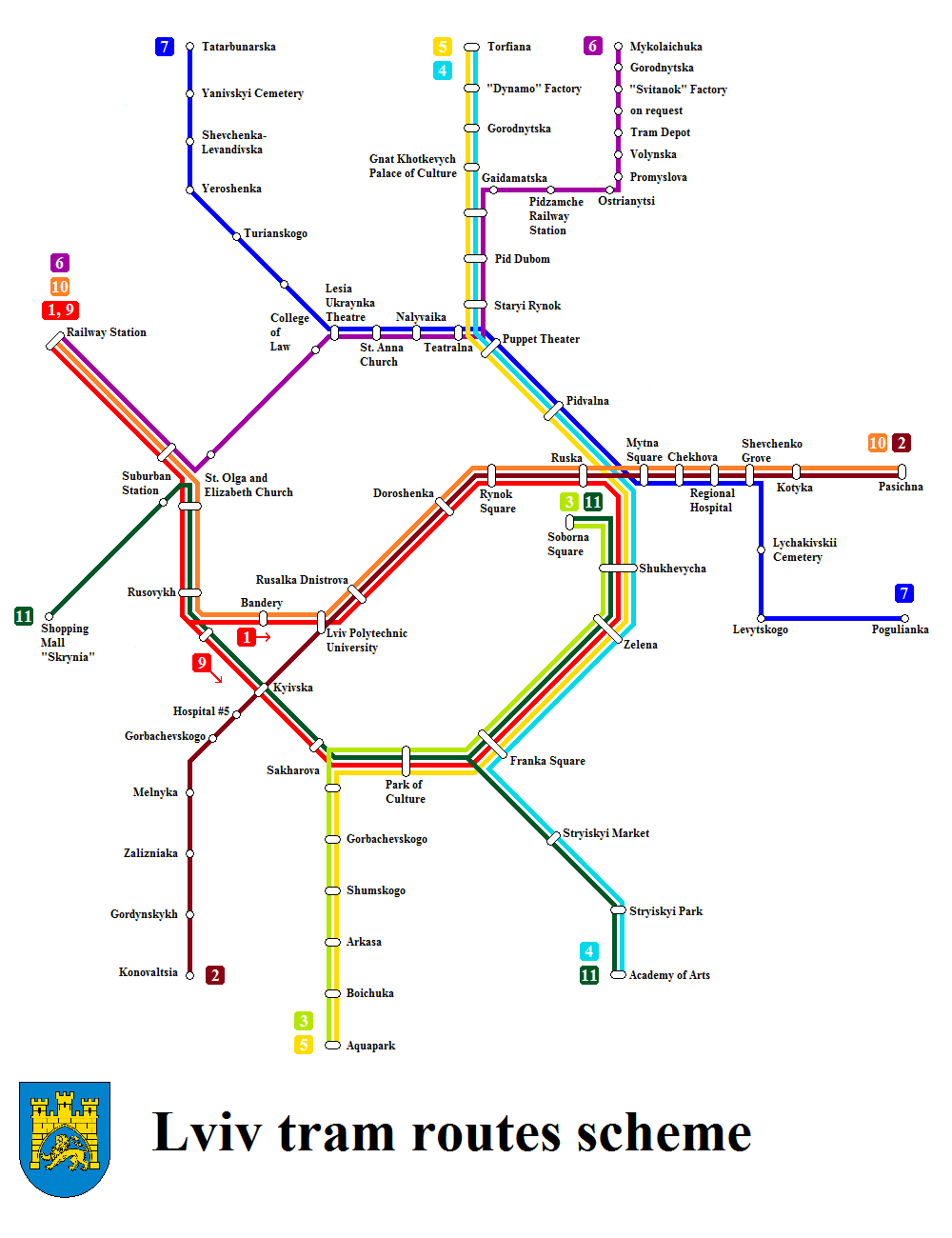 Lviv tram routes map (english)